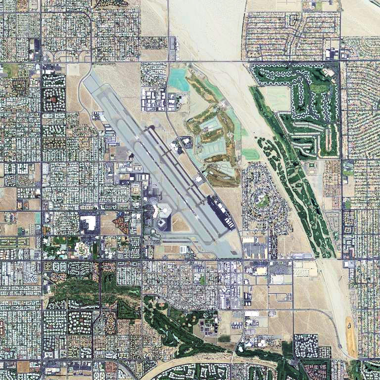 USGS digital orthophoto of Palm Springs International Airport in California